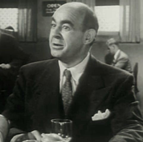 Nestor Paiva in Mr. Reckless (1948) - cropped screenshot